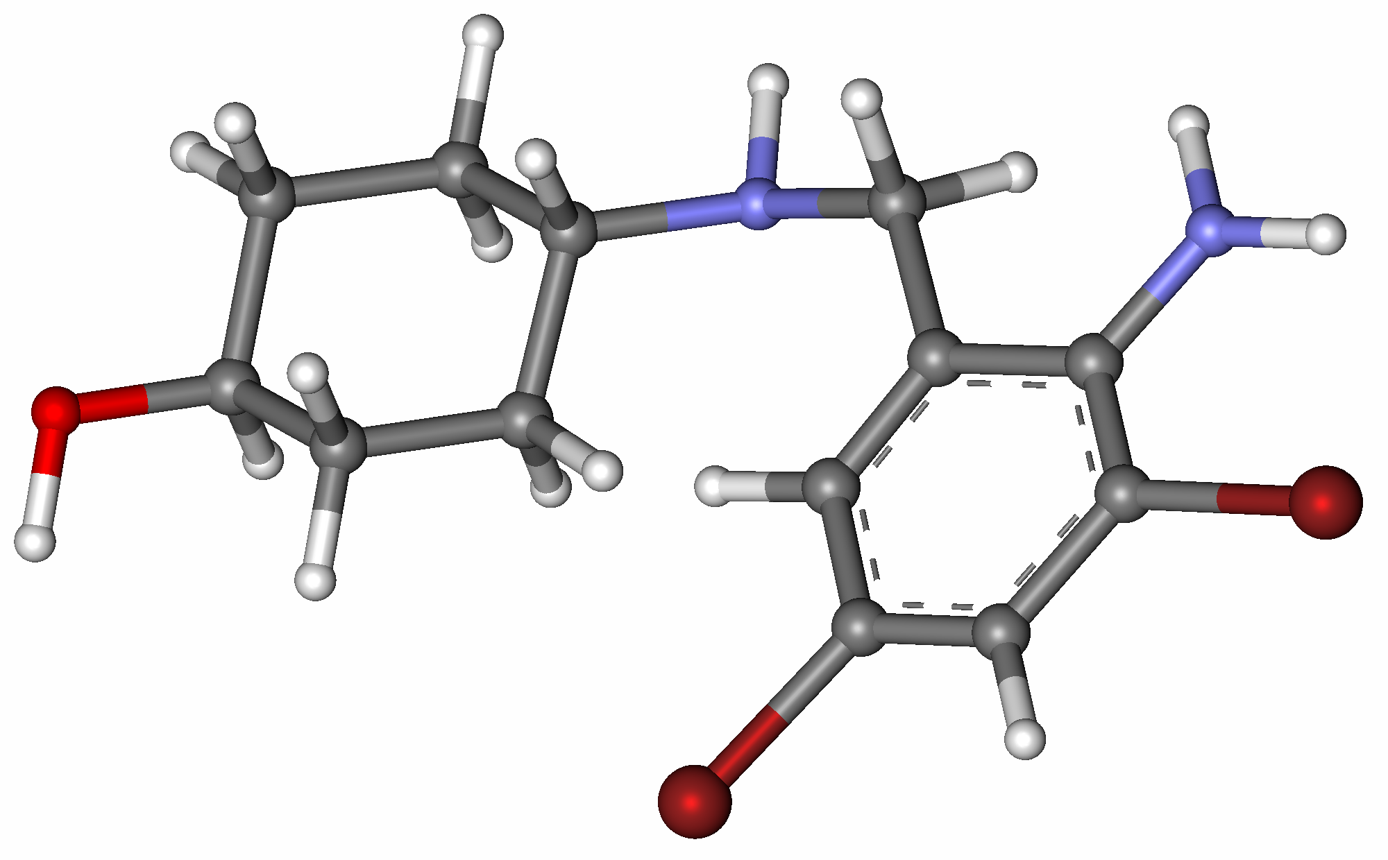 Ball-and-stick model of ambroxol molecule. The structure is taken from ChemSpider. ID 10276826.